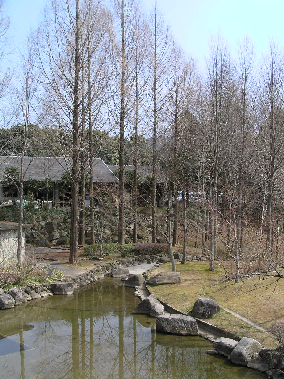 Kitaharima forest park with stream